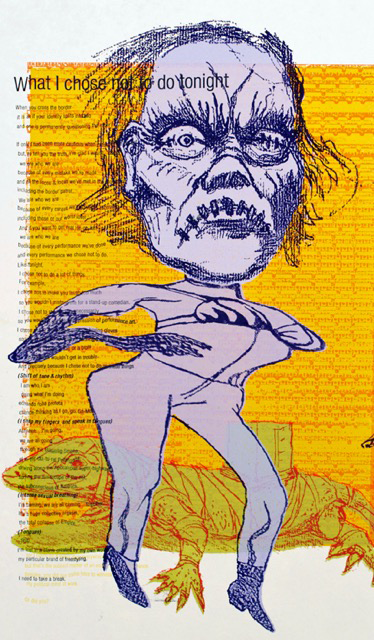 This is a relief print by printmaker, book artist, and publisher Felicia Rice from the collaborative artists book DOC/UNDOC published by Moving Parts Press (limited edition) and City Lights Books (trade). More information about the book at